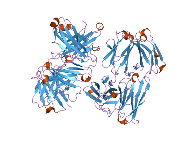 Cartoon representation of the molecular structure of protein registered with 8fab code.